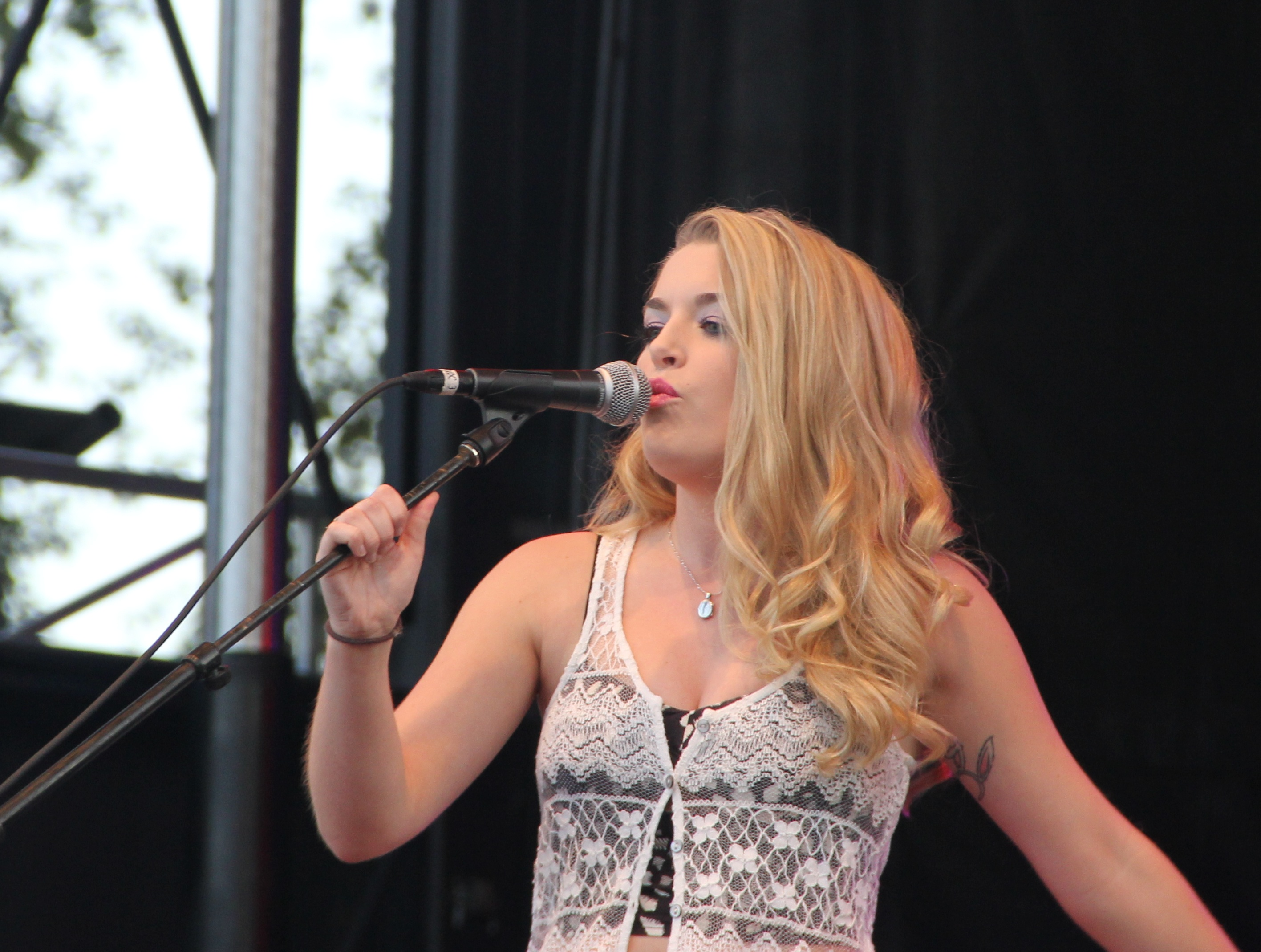 One More Girl_3